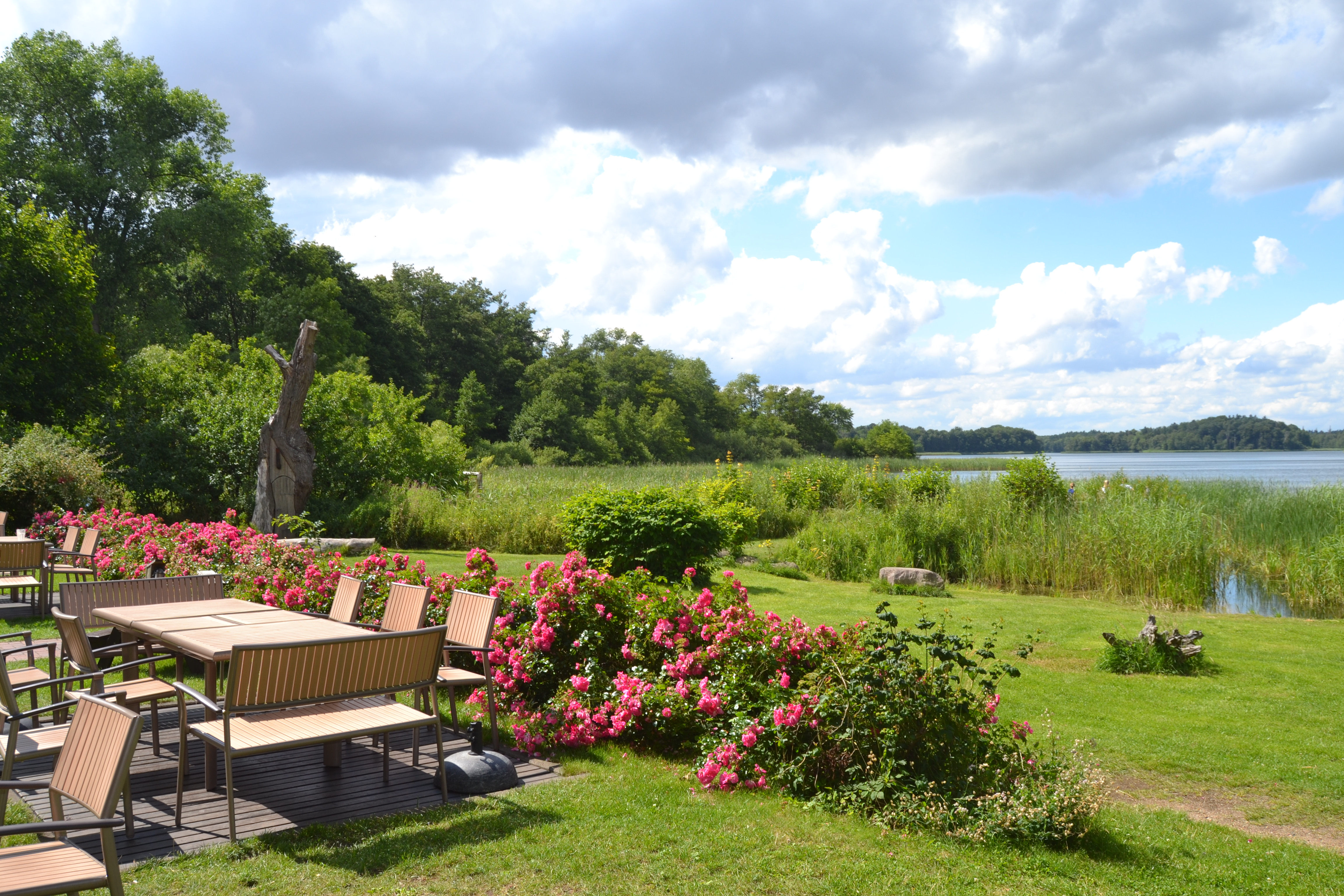 Küchensee at Groß Zecher (Herzogtum Lauenburg, Schleswig-Holstein, Germany)